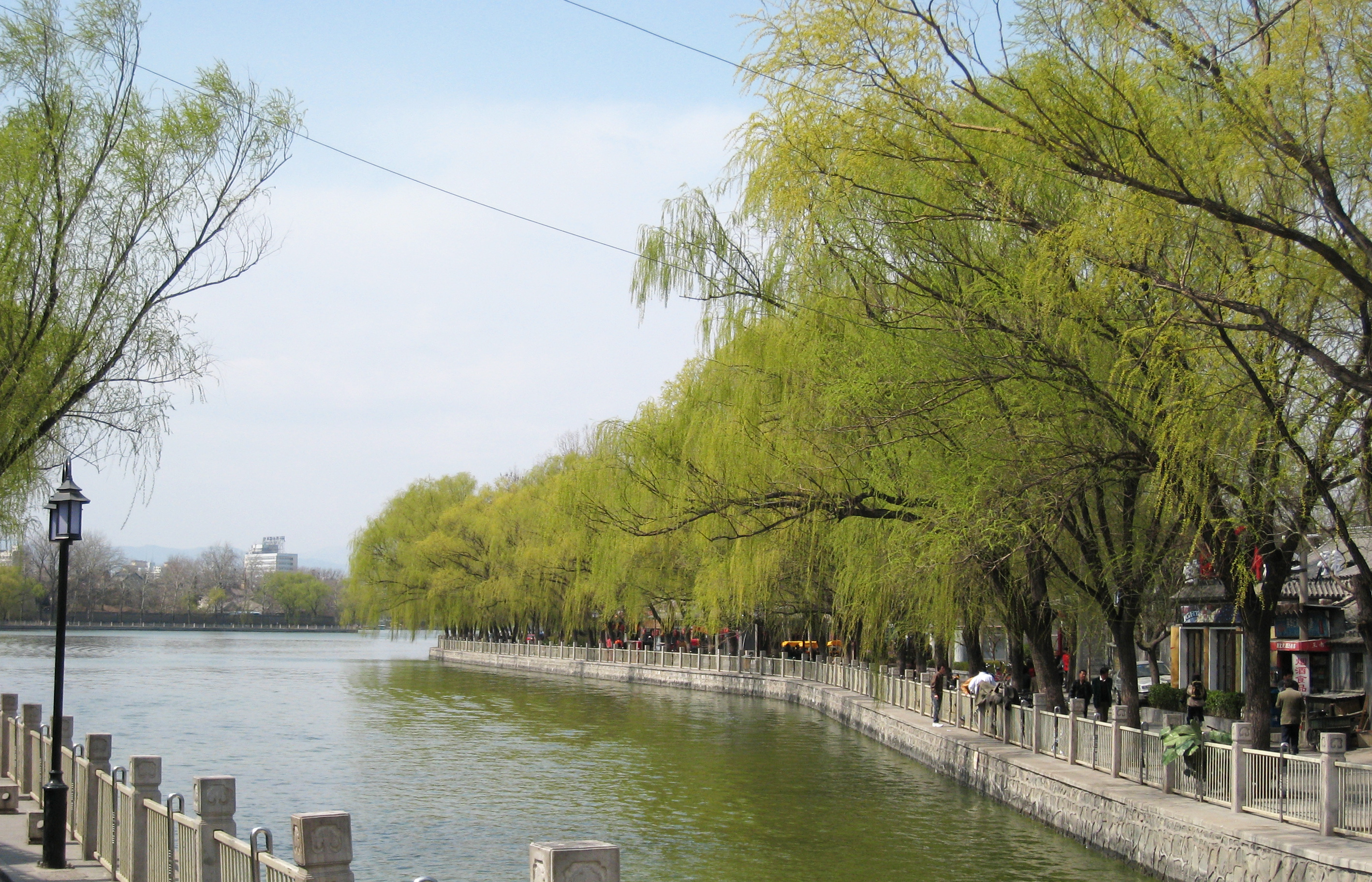 A view of the Shichahai in central Beijing